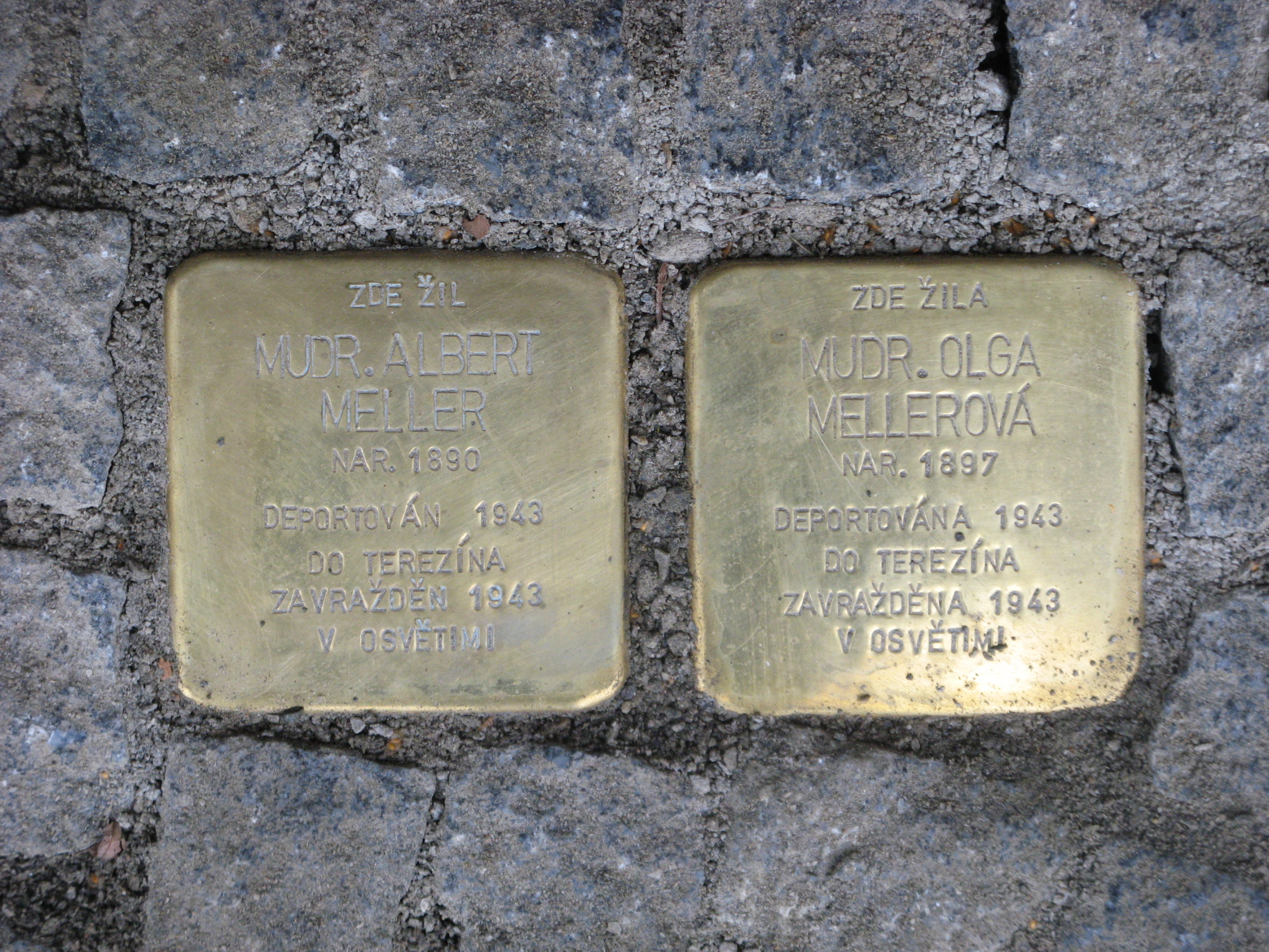 Stolpersteine in Svitavy, Náměstí Míru n. 13, Czech republic